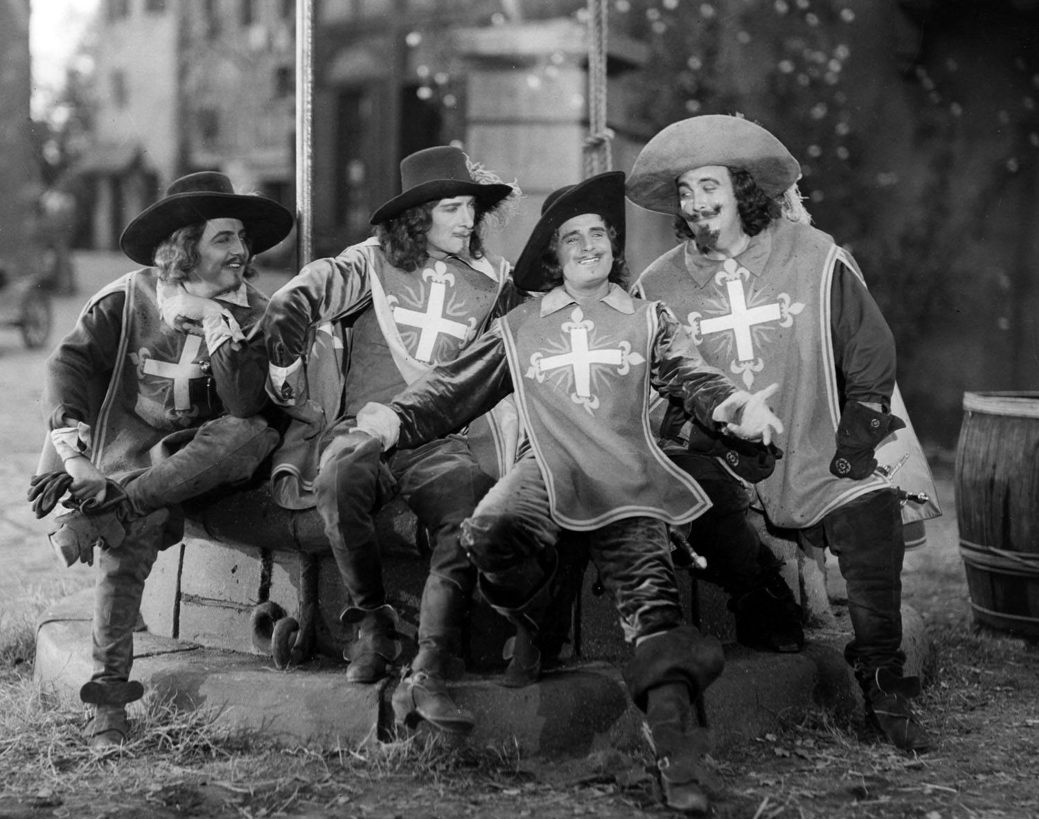 Left to right: Gino Corrado, Leon Bary, Douglas Fairbanks, and Tiny Sandford in The Iron Mask - publicity still